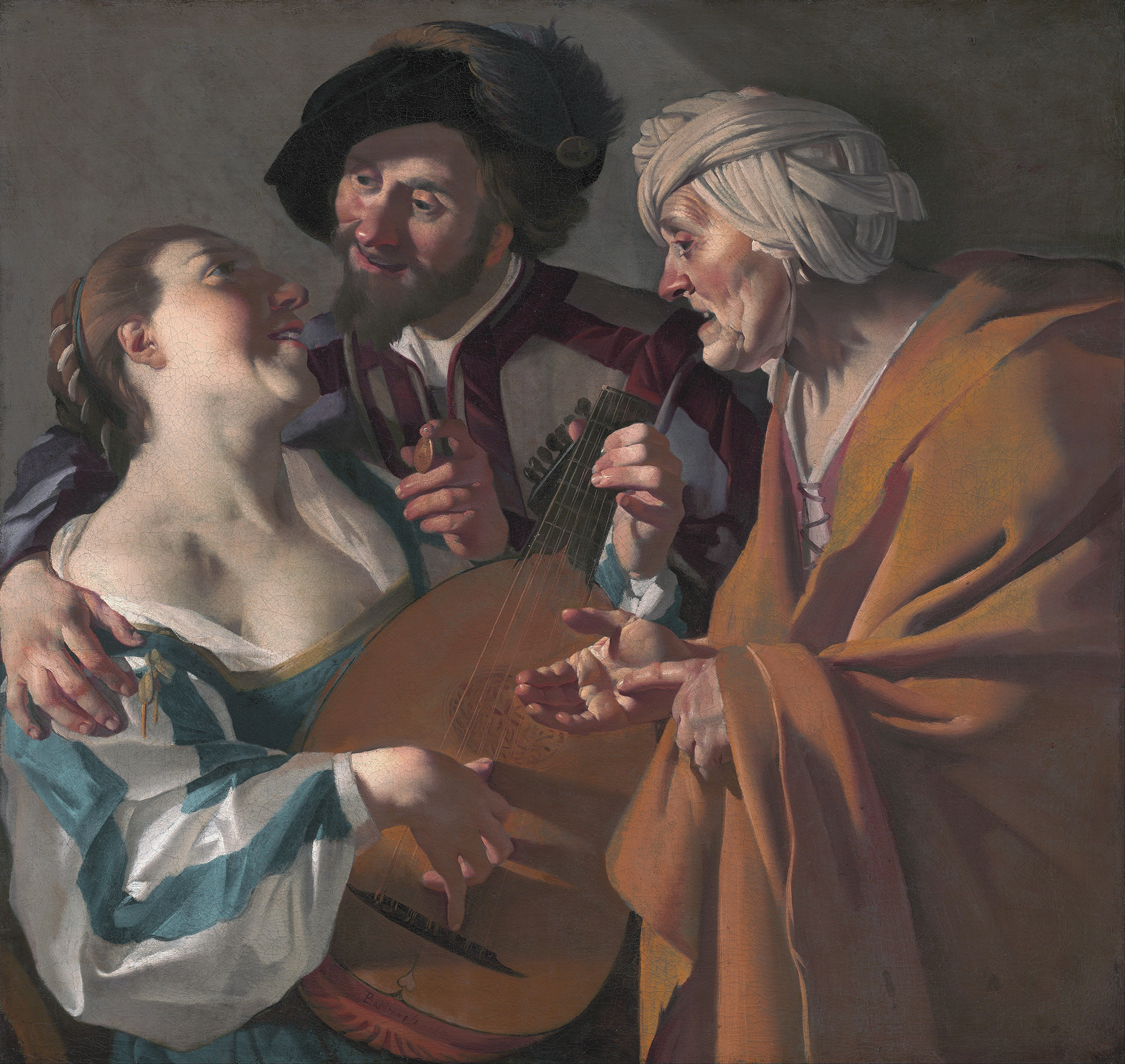 The procuress oil on canvas 100,2 x 105,3 cm signed: TBaburen f 16.. 1622